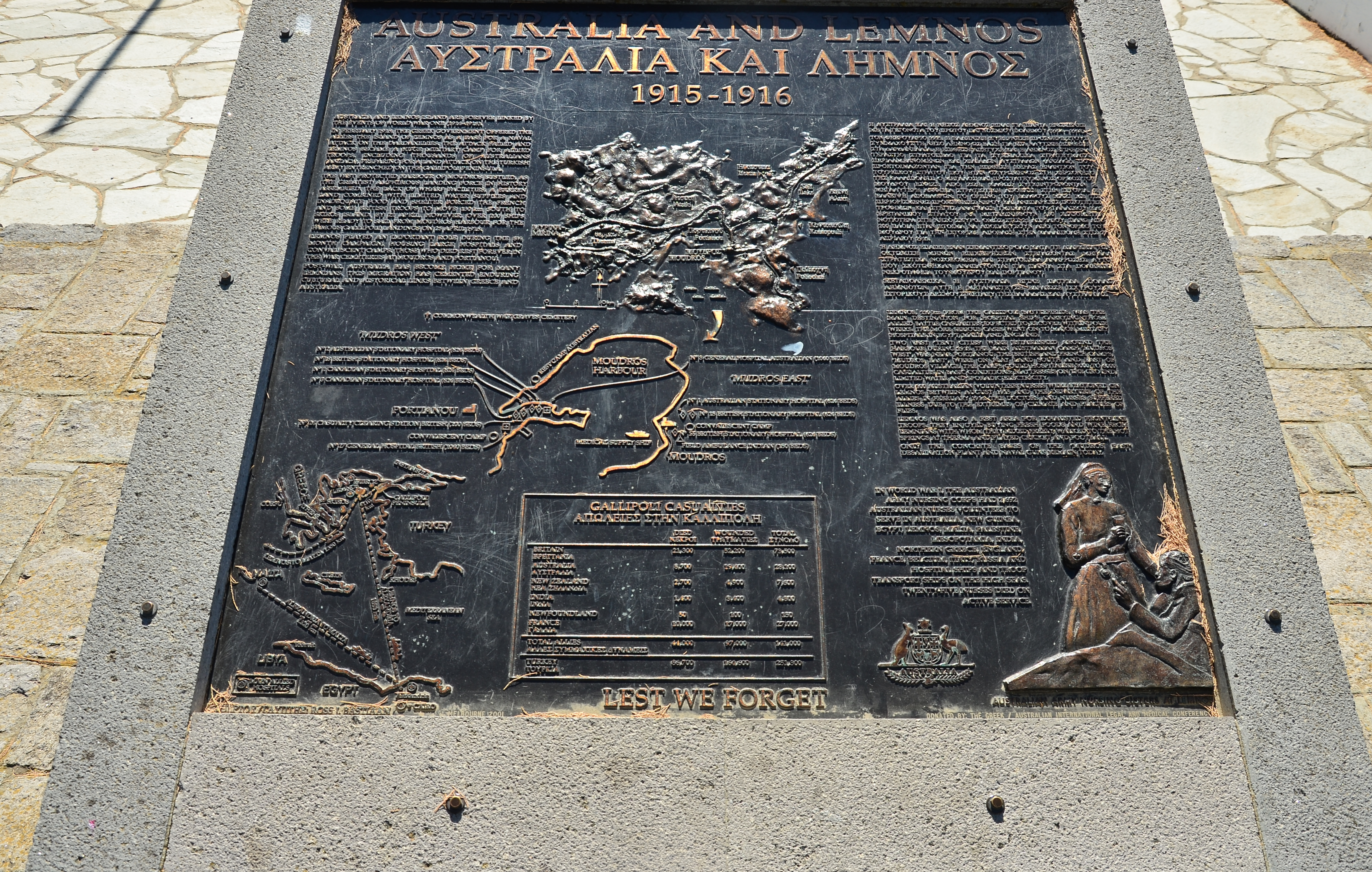 Lemnos and Australia monument in Moudros, Lemnos, Greece